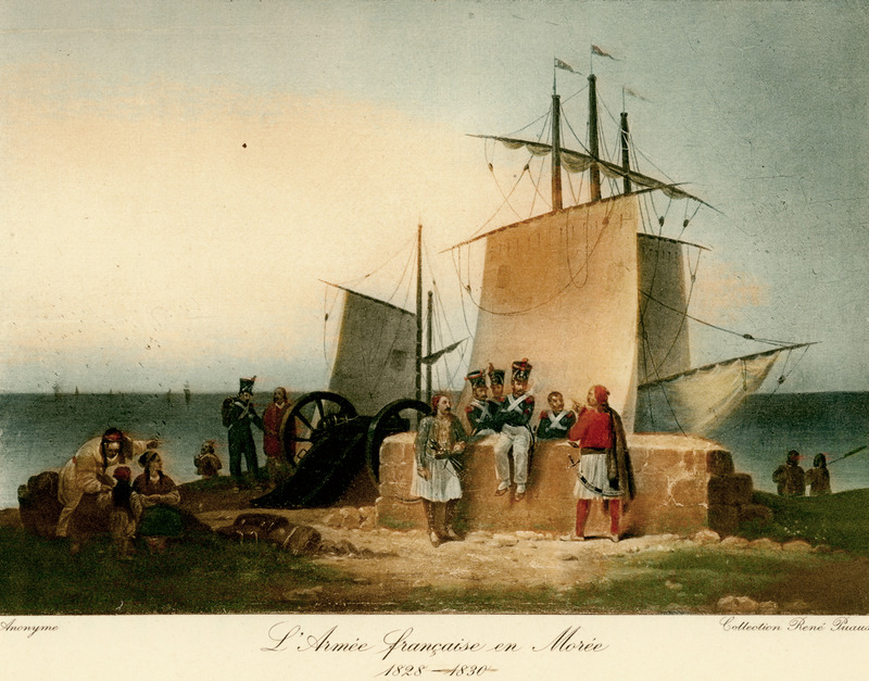 L’Armée française en Morée, 1828-1830